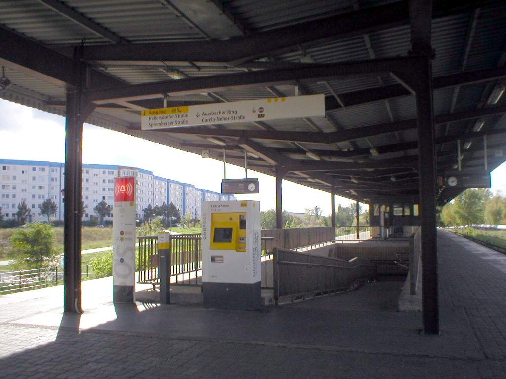 the underground station Cottbusser Platz, line U5, of the Berlin U-Bahn, Germany